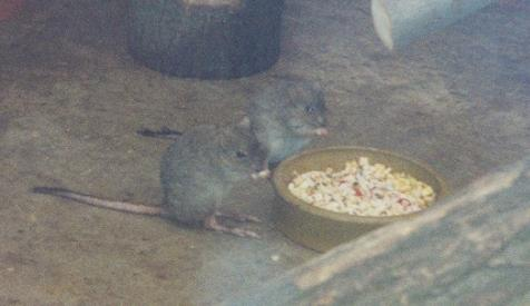 Brush-tailed Bettong (Bettongia penicillata) in Duisburg Zoo, Nordrhein-Westfalen, Germany